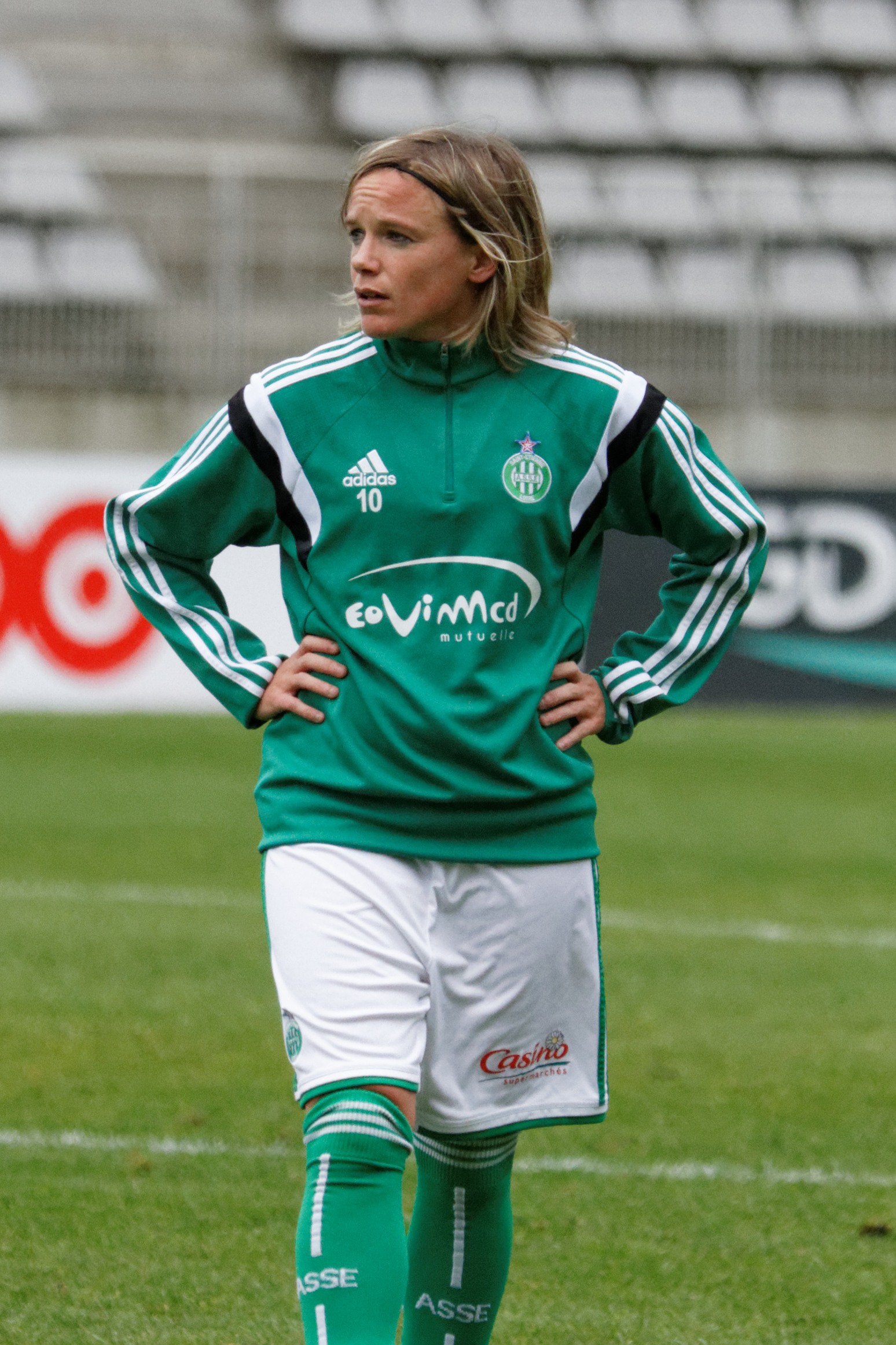 D1, PSG vs Saint-Étienne, 16 November 2014